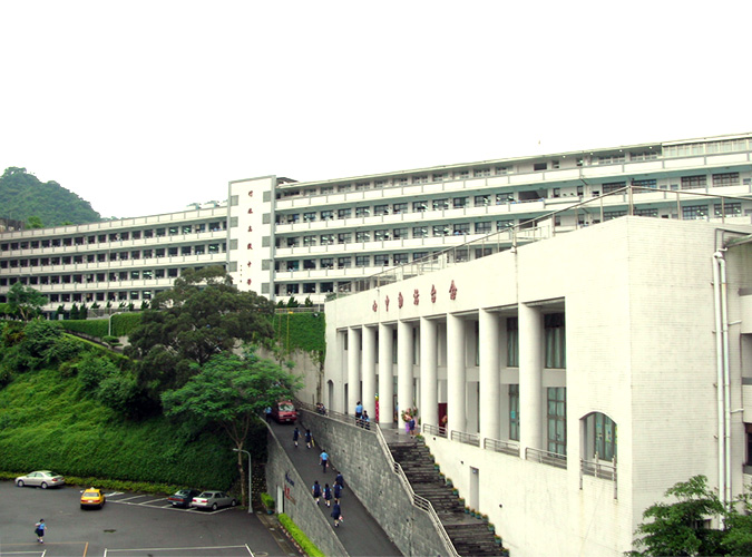 Private Chu-lin Senior High School in Taipei, Taiwan.